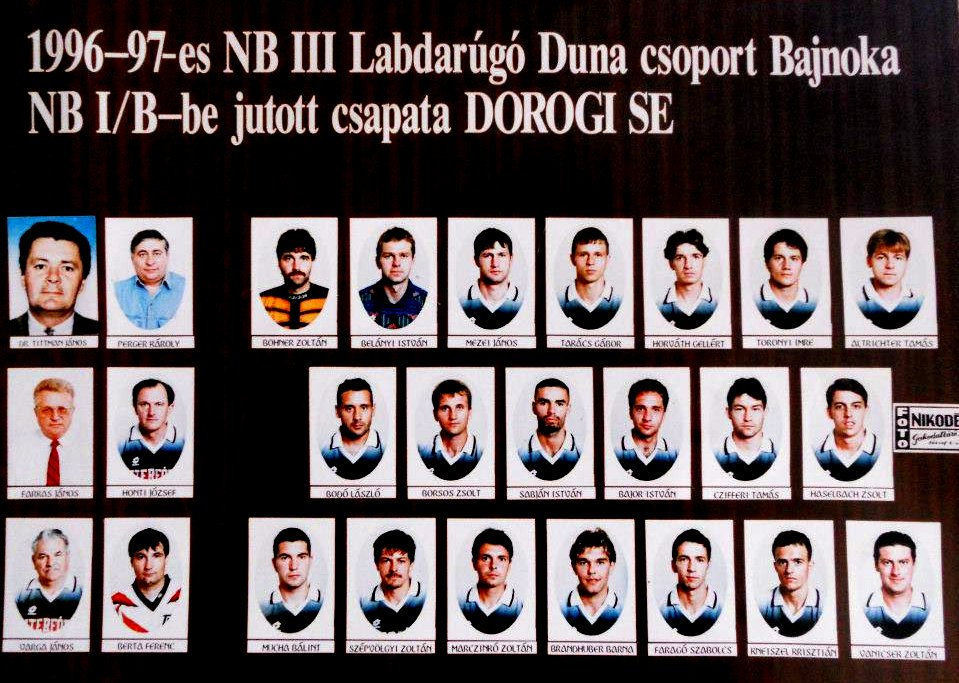 This team won the 3rd division then with qualification matches Dorog stepped into upper level